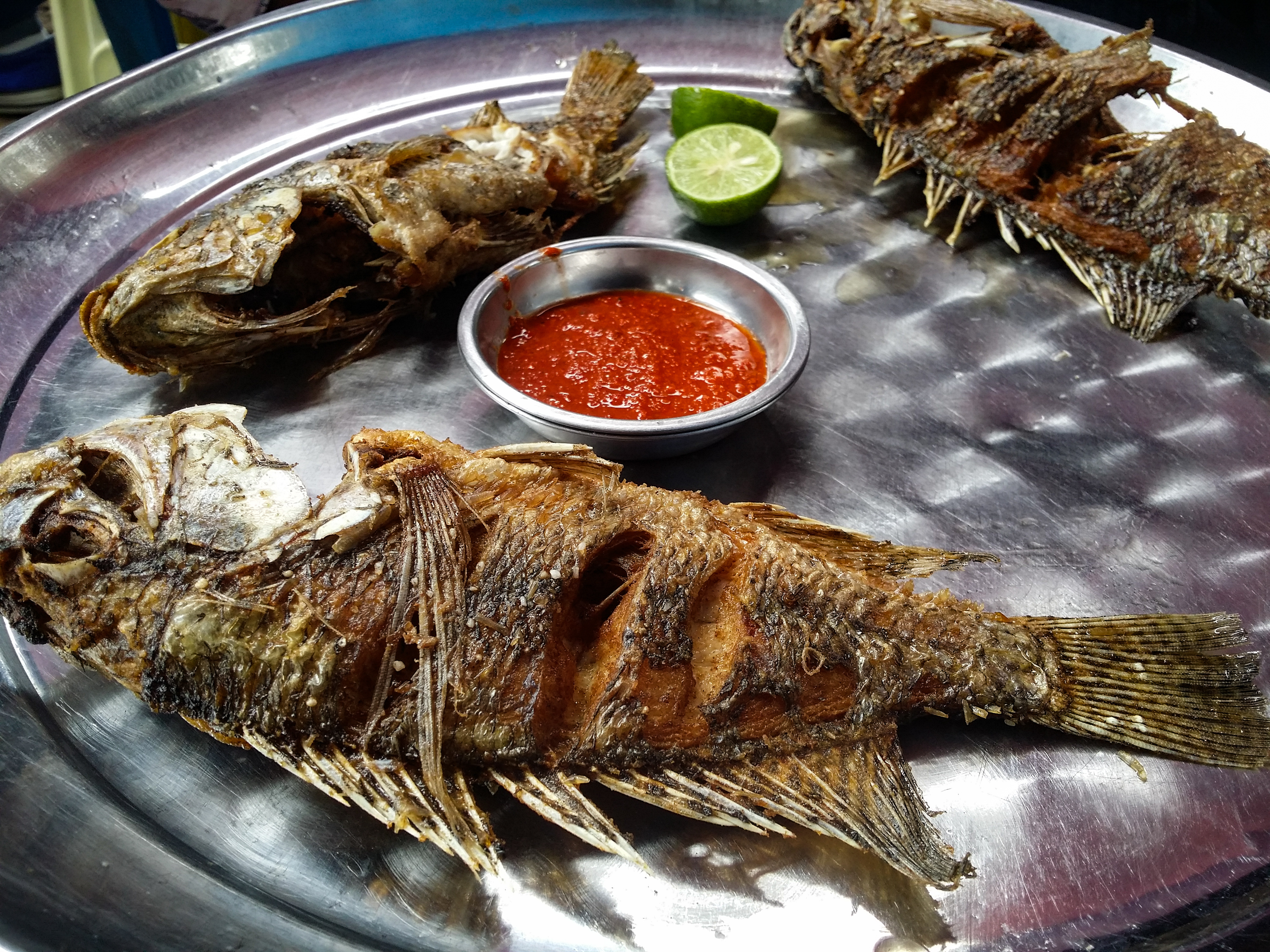 This is an image of "African people at work" from Ethiopia